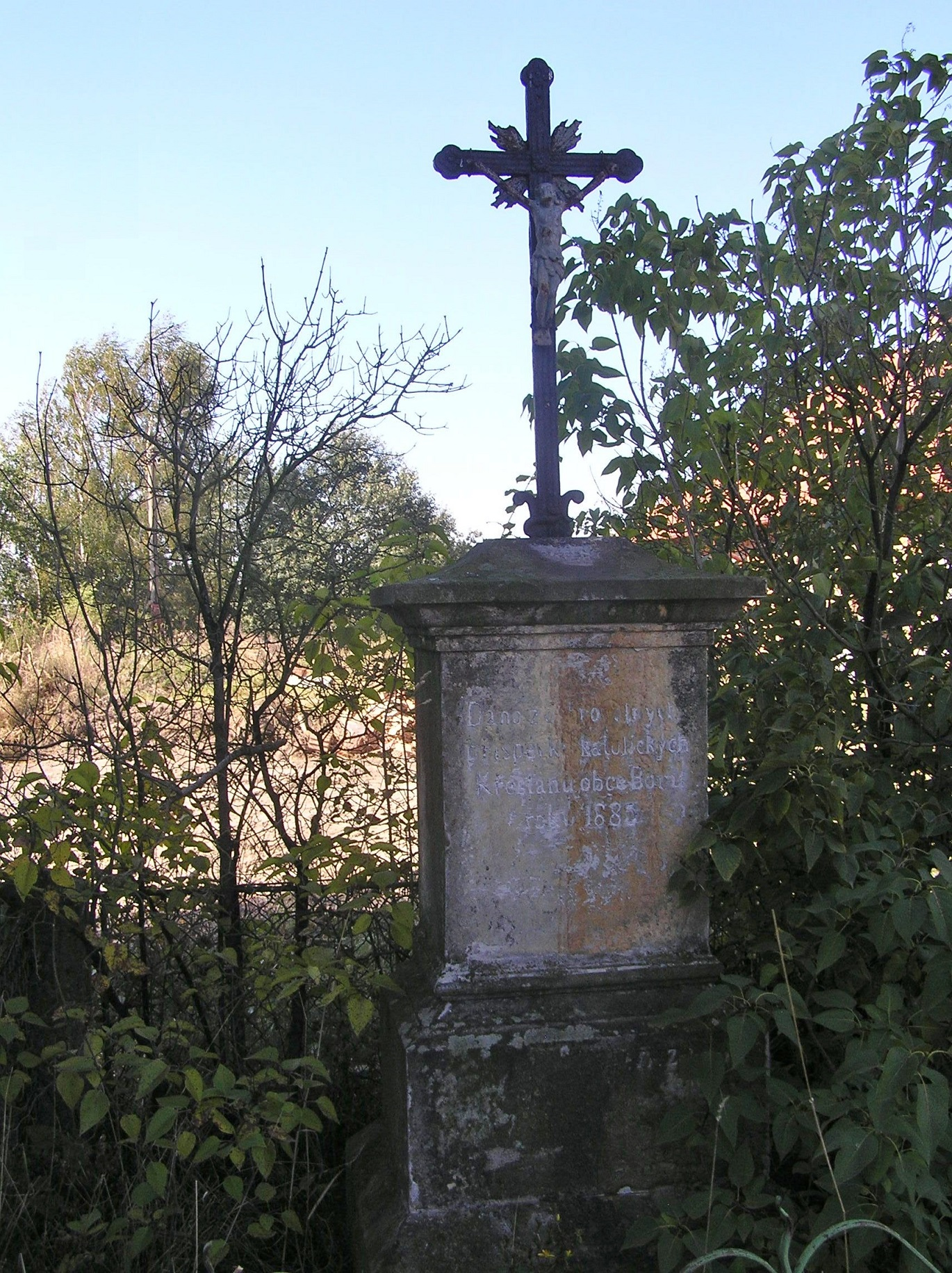 Crucifix in in hamlet Bor (part of village Vlkava)